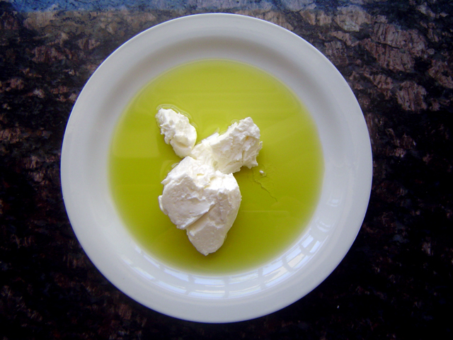 Labneh with olive oil Taken and uploaded by: Omernos